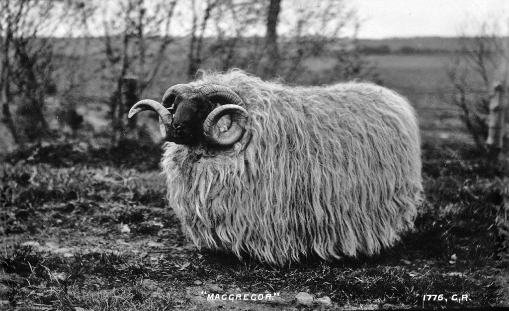 The Scottish Blackface ram 'Macgregor', owned by James R. Dempster, Ladyton. Photograph by Charles Reid about 1890.